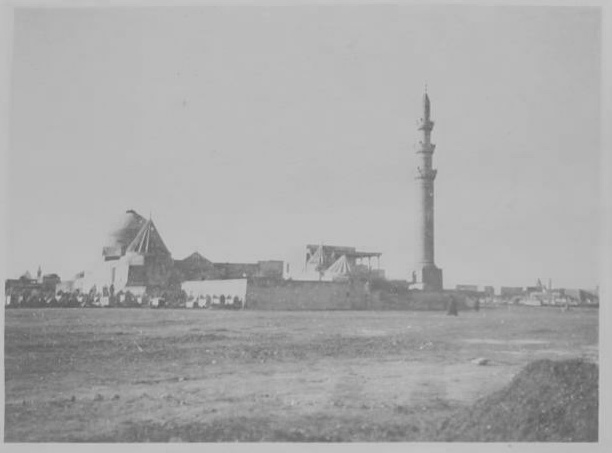 A View of a large mosque and a large minaret in the city of Mosul, Iraq 1916-1919. It is the Mosque of the Prophet Shit, which was blown by (ISIS) terrorists in 2014